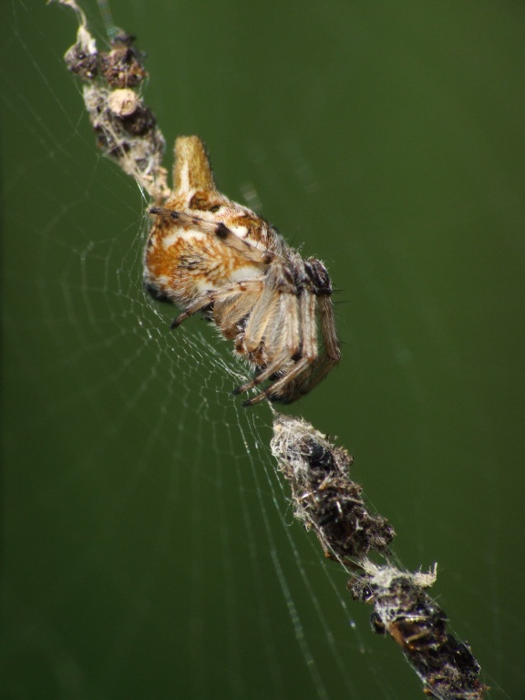 Cyclosa sp., Probably Cyclosa sierrae